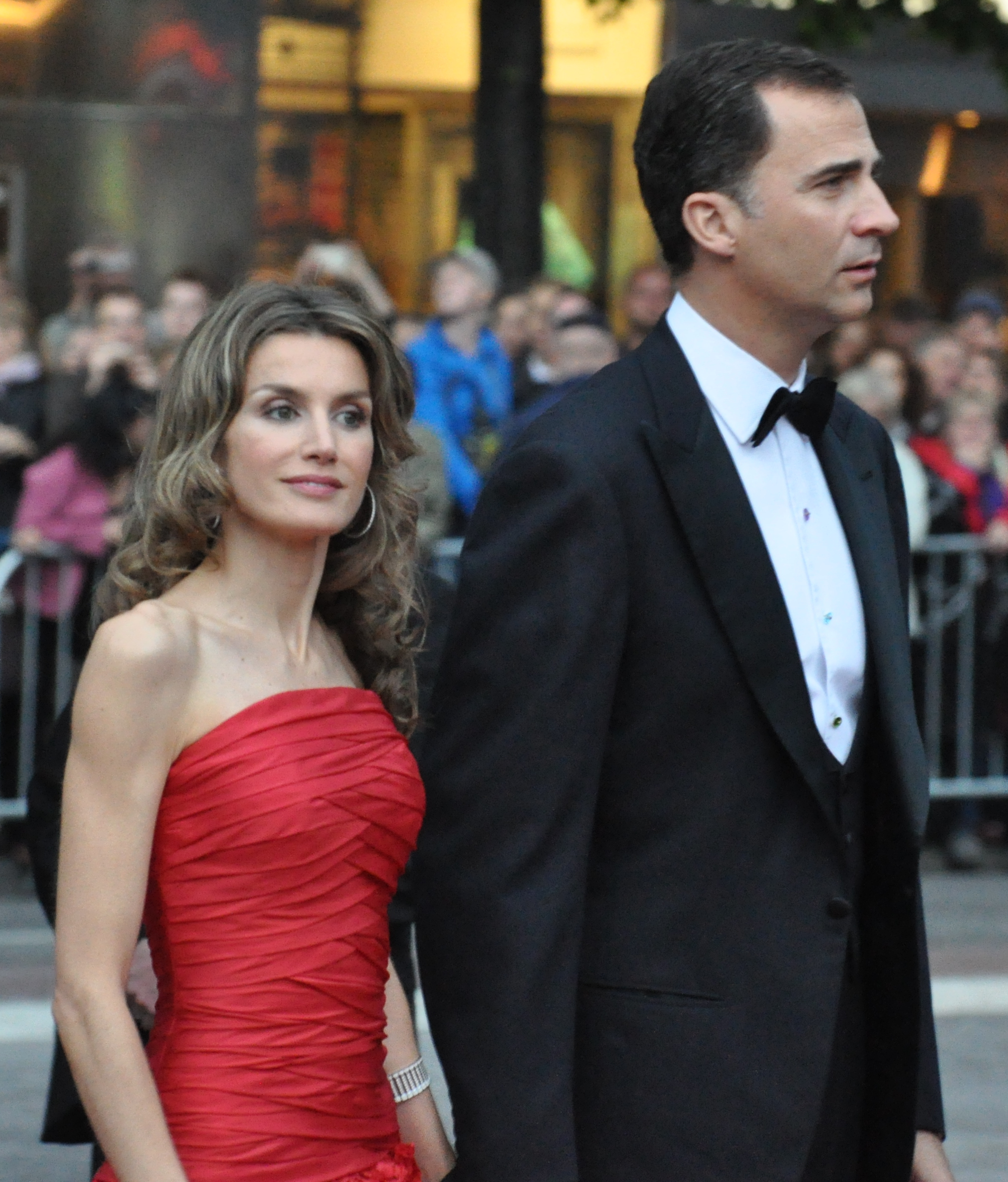 Wedding of Victoria, Crown Princess of Sweden, and Daniel Westling; Arrival of members for the Gouvernment and Swedish and foreign guests of hounour to the Riksdag's Gala Performance at Konserthuset